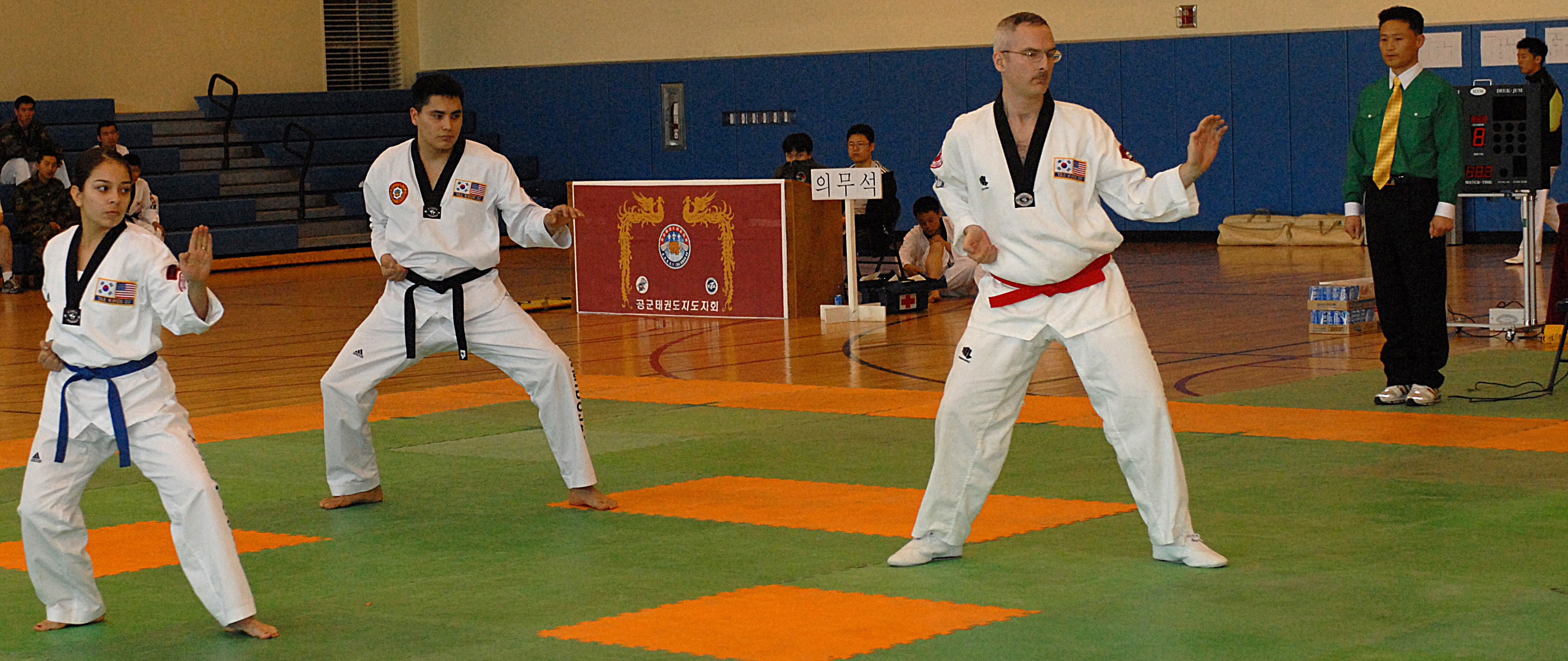 KUNSAN AIR BASE, Republic of Korea -- Senior Airmen Brenna Reynolds and Aaron Taylor, 8th Maintenance Squadron, and Lt. Col. Kenneth Pascoe, from the 8th Fighter Wing, perform Poomsae during the base Taekwondo tournament here Jan. 30. The tournament is held annually as an opportunity for Airmen from the 8th Fighter Wing and the Republic of Korea Air Force's 38th Fighter Group to strengthen their relationship, learn more about each others culture and test their martial arts skills.